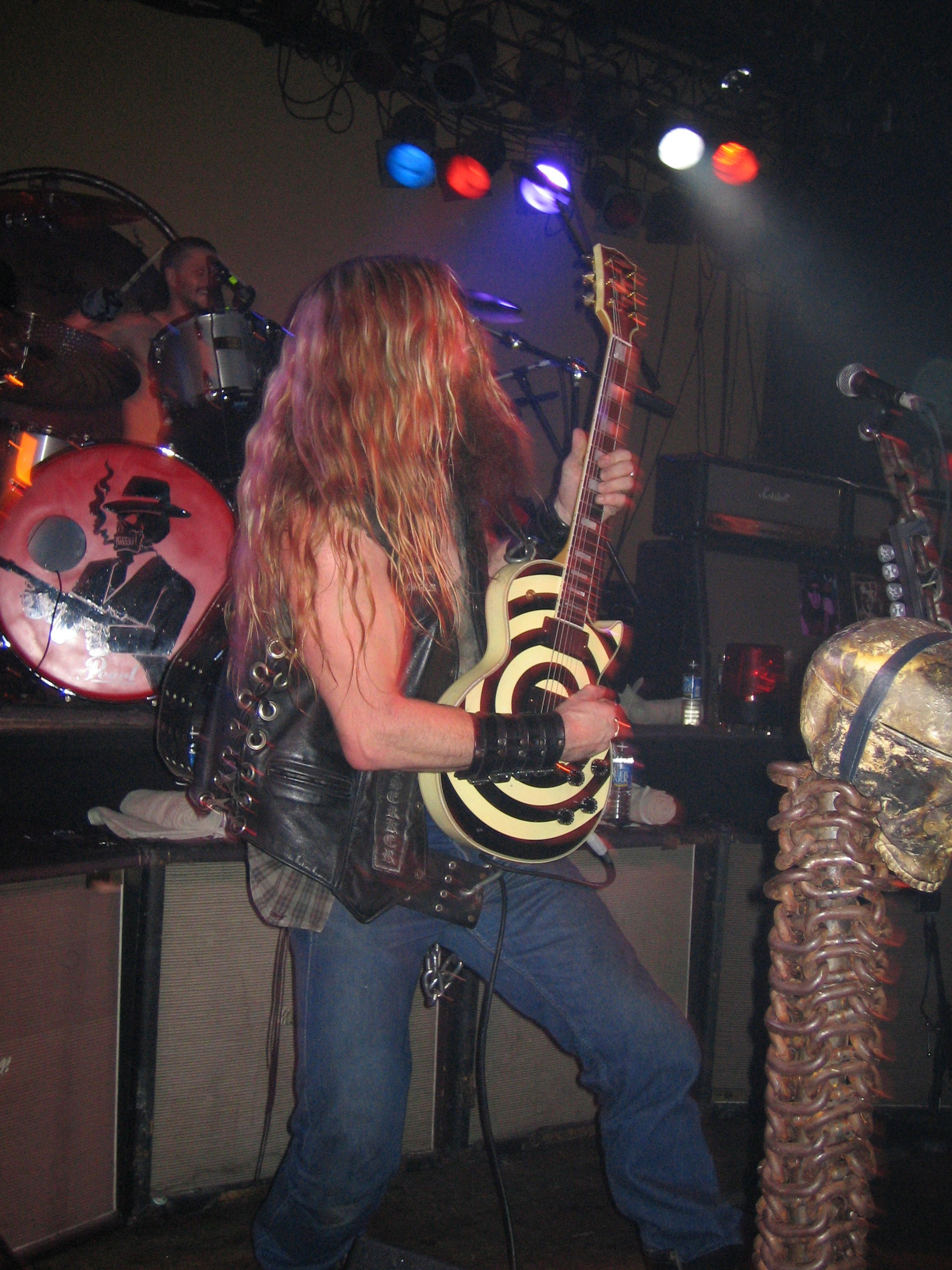 Zakk Wylde live (Recorded at Jaxx Nightclub in Springfield, VA)